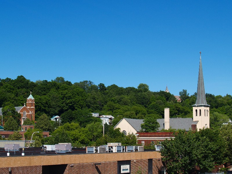 A view of Amsterdam, New York, July 2005